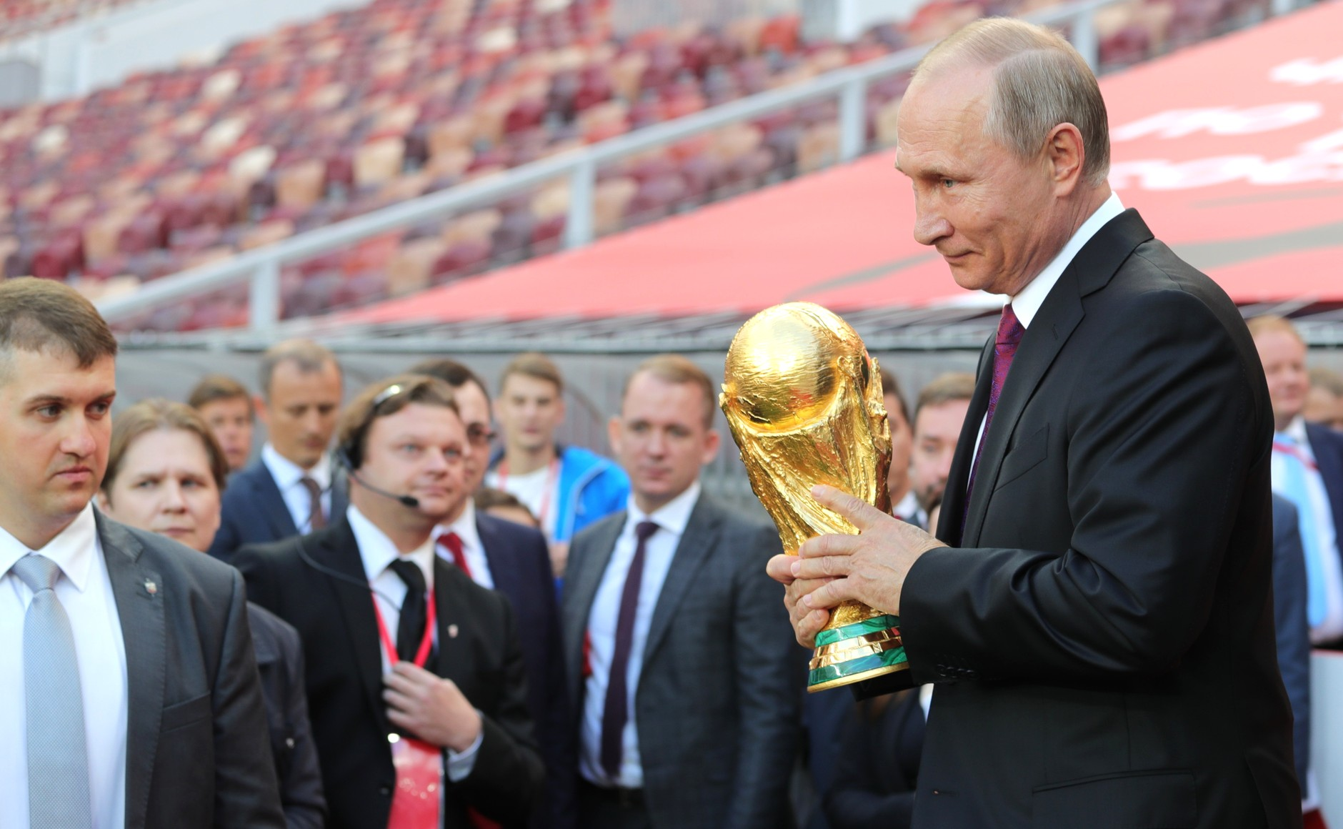 Vladimir Putin gave the start to the FIFA World Cup Trophy Tour at the Luzhniki Stadium